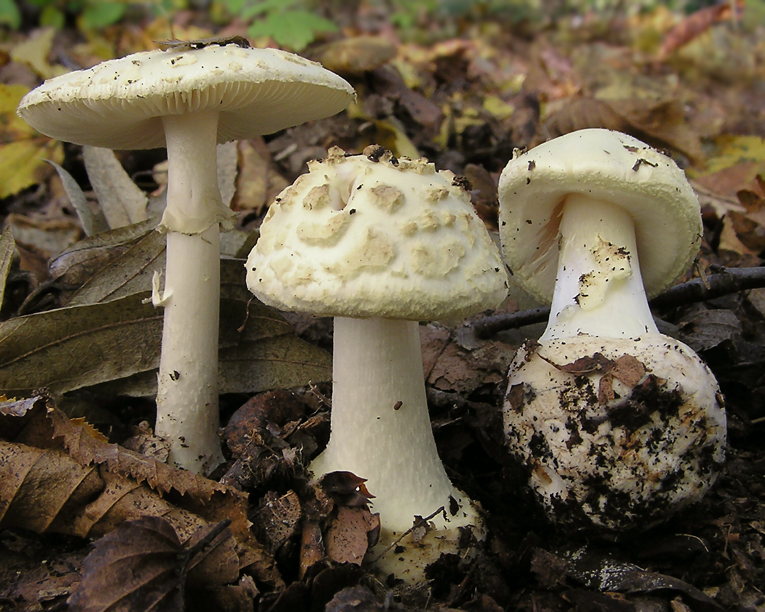 Amanita bulbosa var. citrina Gillet Image location: Hainspitz, Thüringen, Germany [admin – Sat Aug 14 01:59:54 +0000 2010]: Changed location name from ‘Deutschland, Thüringen, Hainspitz’ to ‘Hainspitz, Thüringen, Germany’ Recognized by sight For more information about this, see the observation page at Mushroom Observer.